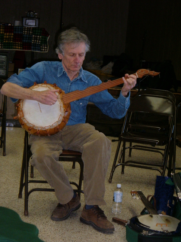 Mike Seeger plays gourd banjo during his presentation to old-time music enthusiasts at Breakin' Up Winter, an annual old-time music retreat outside Nashville.